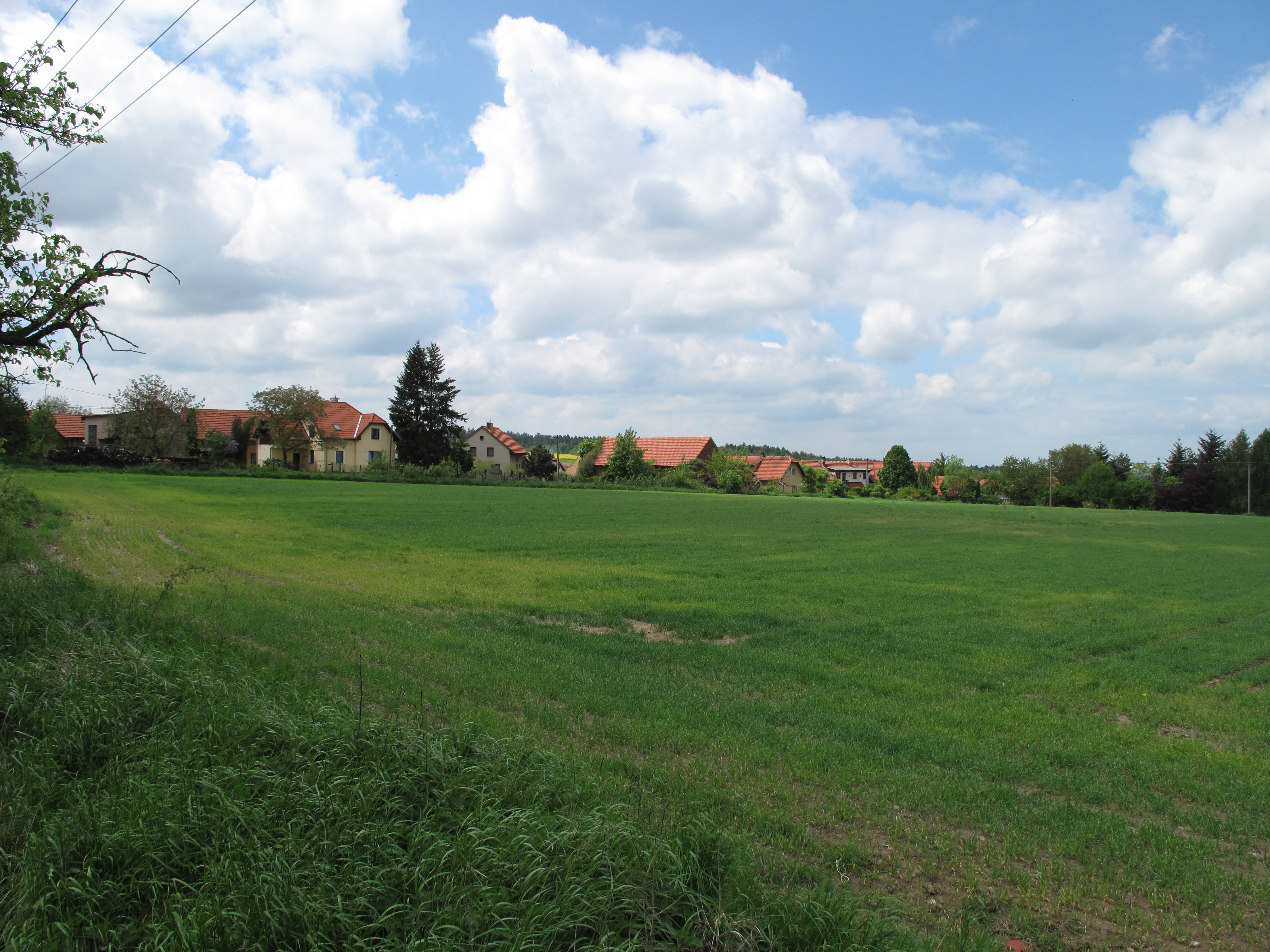 Králka village as seen from the east, Prague-East District, Czech Republic.